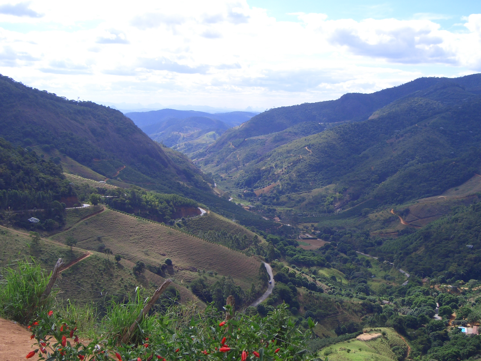 Canaã valley in Espirito Santo's mountains, there is on the way of Santa Maria de Jetibá. Author: Junior Pedruzzi